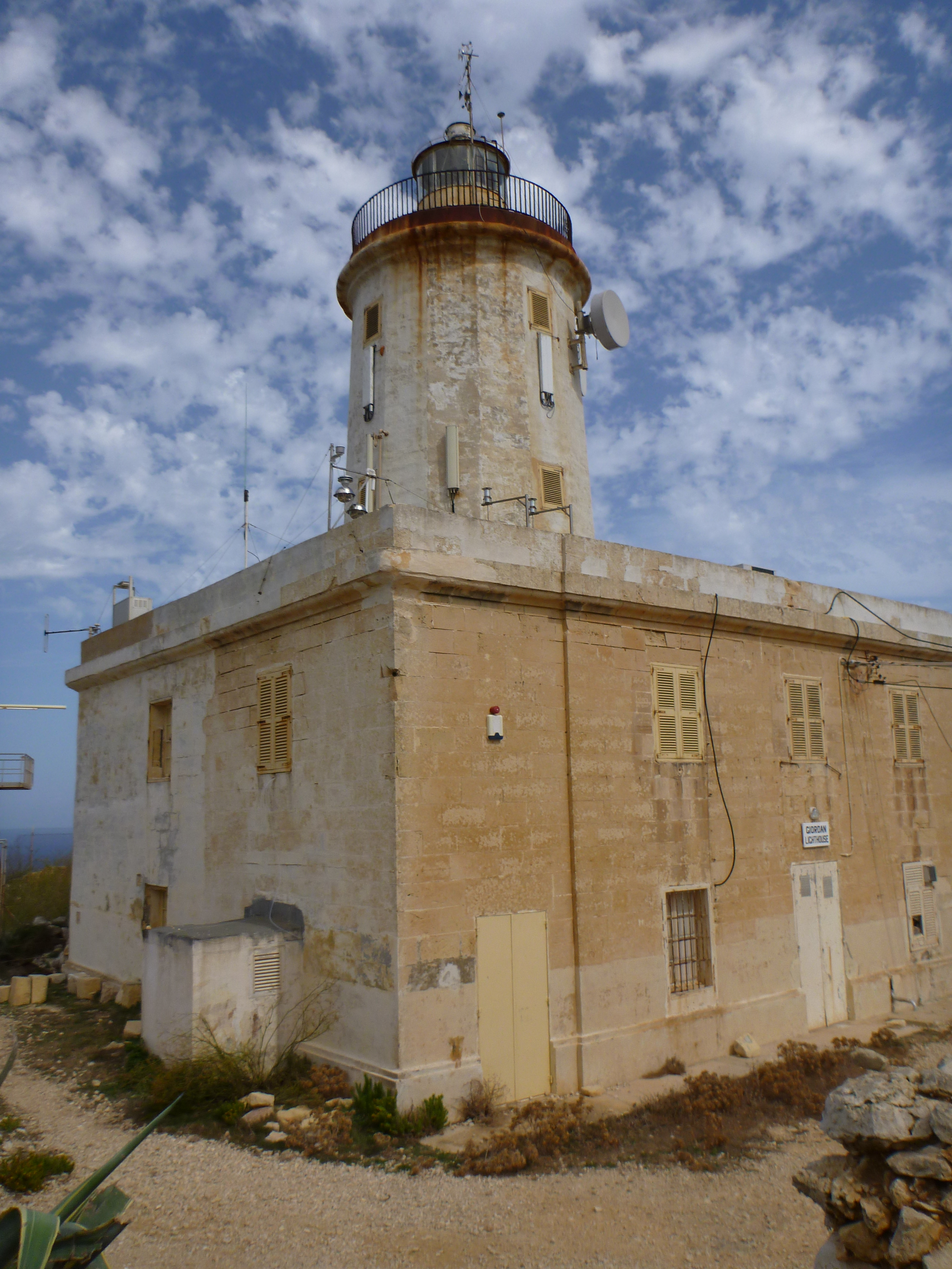 Front and side view of the Giordan Lighthouse (Ta’ Gurdan Lighthouse) close to Ghasri in Malta on island Gozo